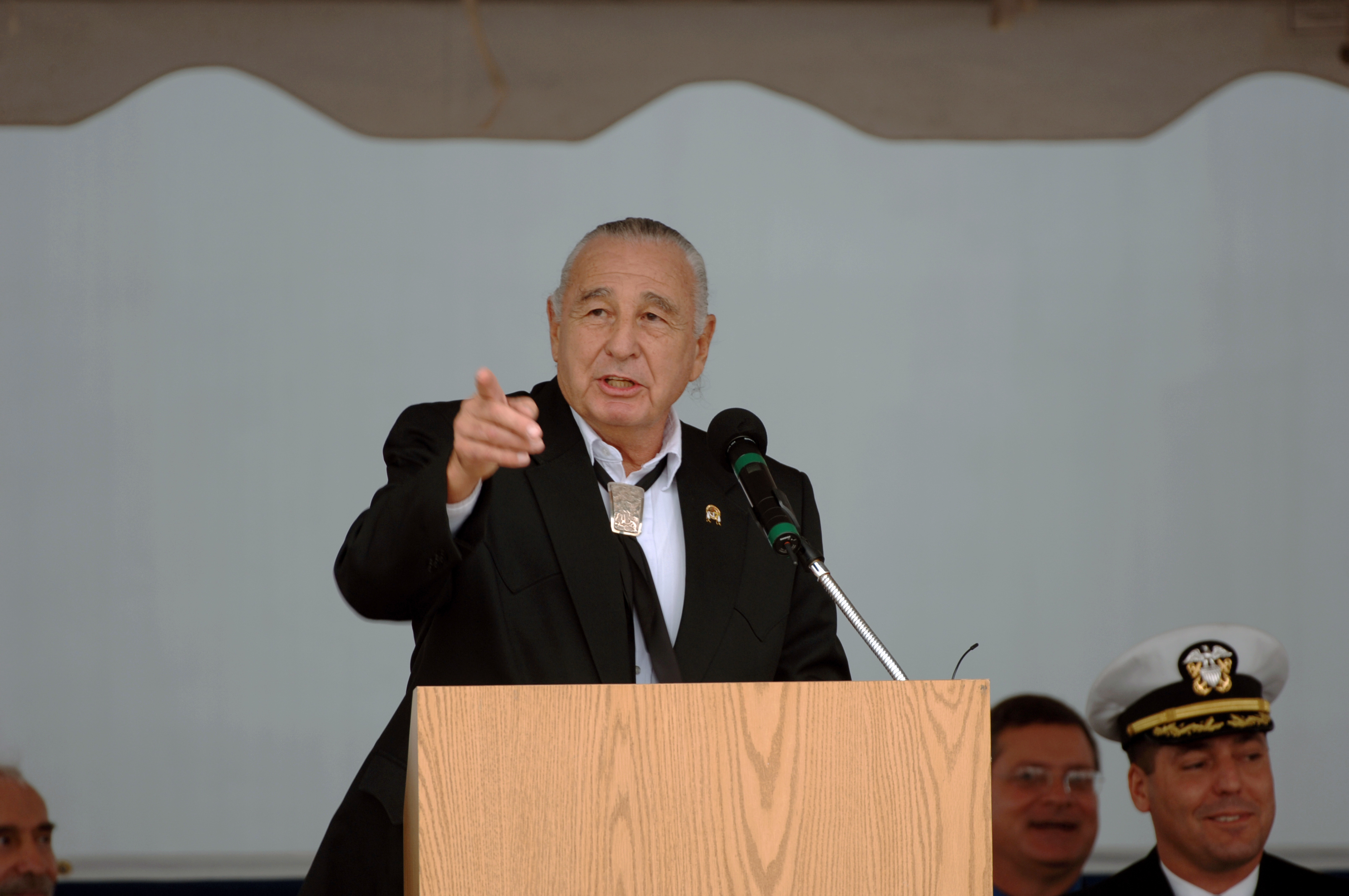 PANAMA CITY, Fla. (Dec. 15, 2007) Ben Nighthorse Campbell, former U.S. Senator from the state of Colorado, delivers remarks at the commissioning ceremony for USS Mesa Verde (LPD 19). More than 3,000 guests were on hand for the ceremony. The ship is named after Mesa Verde National Park in Colorado, a significant archaeological and anthropological site that in 1906 Congress established as the first cultural park in the National Park Systems. U.S. Navy photo by Robert Cole (Released)